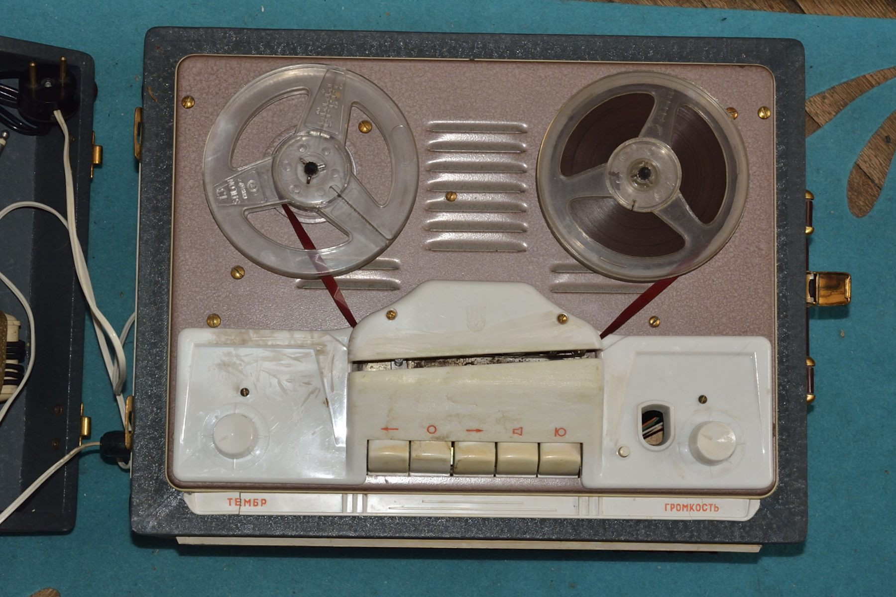 Soviet tape recorder Aidas-9M (ELFA-65), 1966.